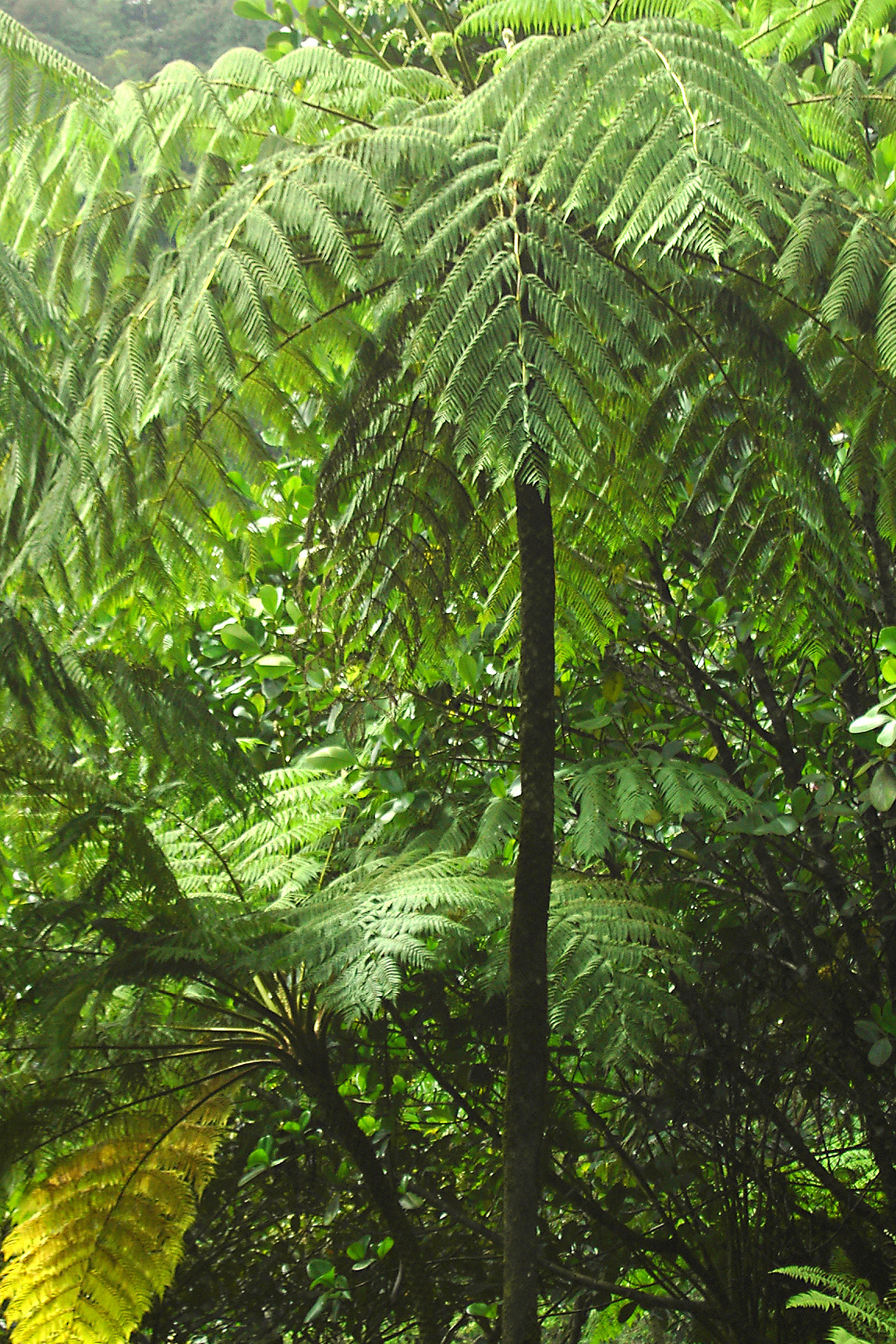 Rainforest near Belles - Dominica, W.I.